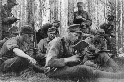 Battalion Seitamo of the Osasto Partinen (Military Department Partinen) in forest of Ilomantsi during the Continuation War. Commander in middle of background.